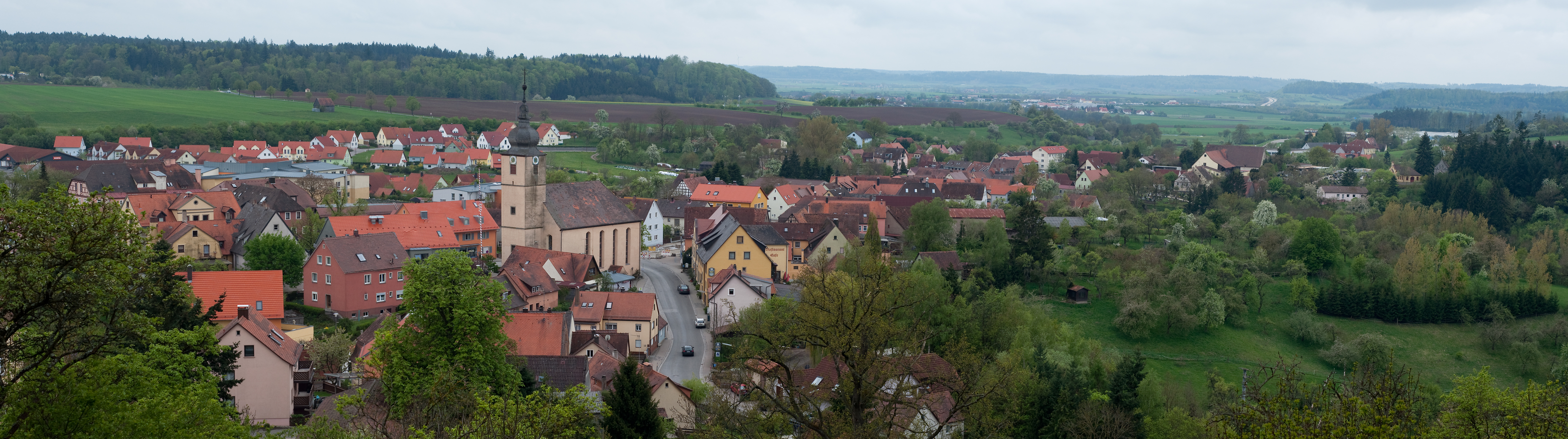 Schillingsfürst, Franconia, Germany 8 D